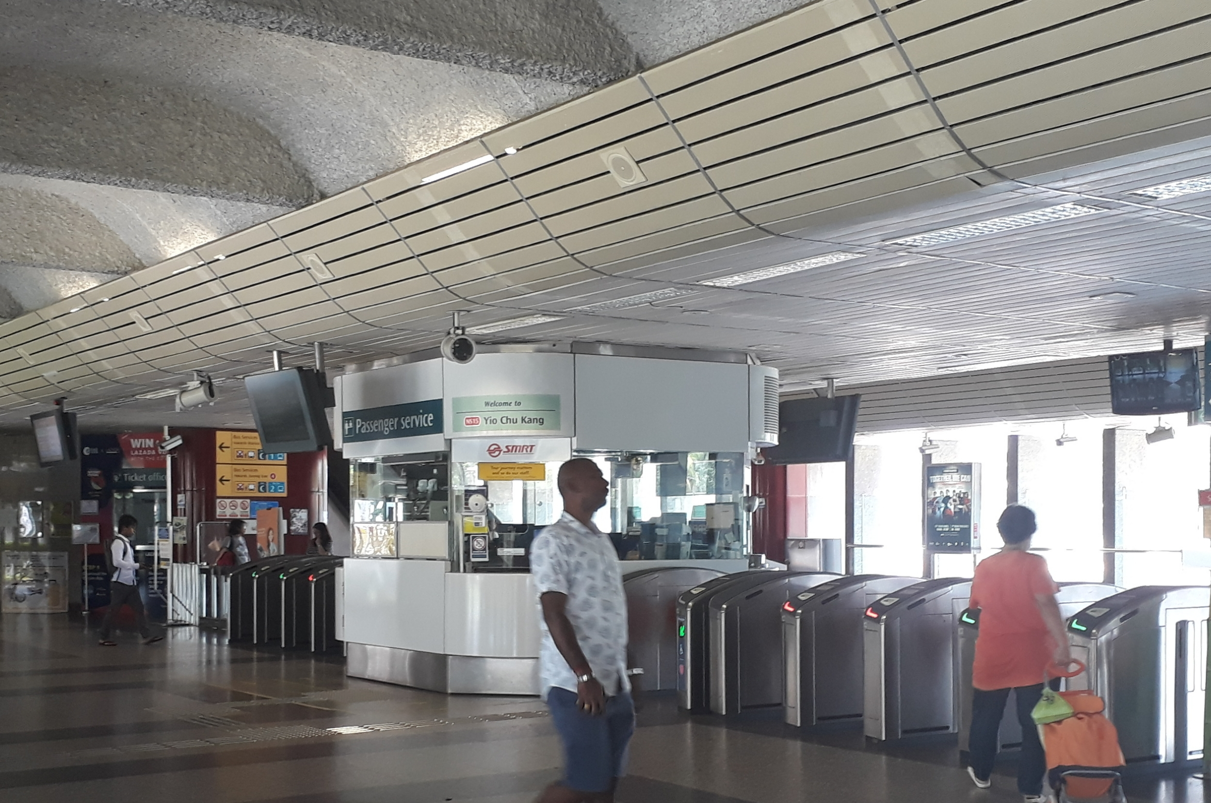 Yio Chu Kang MRT Concourse